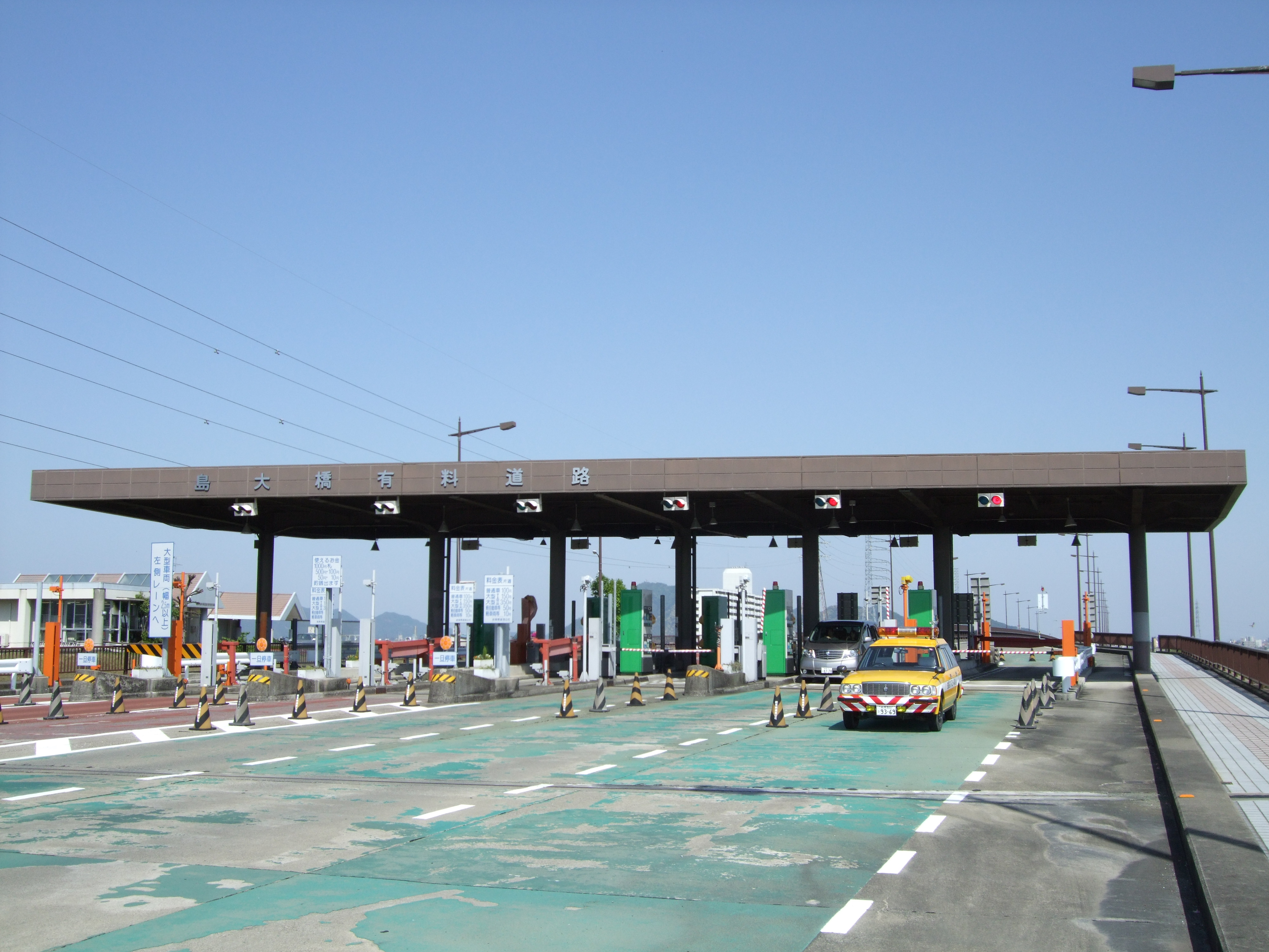 Shima Ohashi Toll Road in Gifu City, Gifu Prefecture, Japan